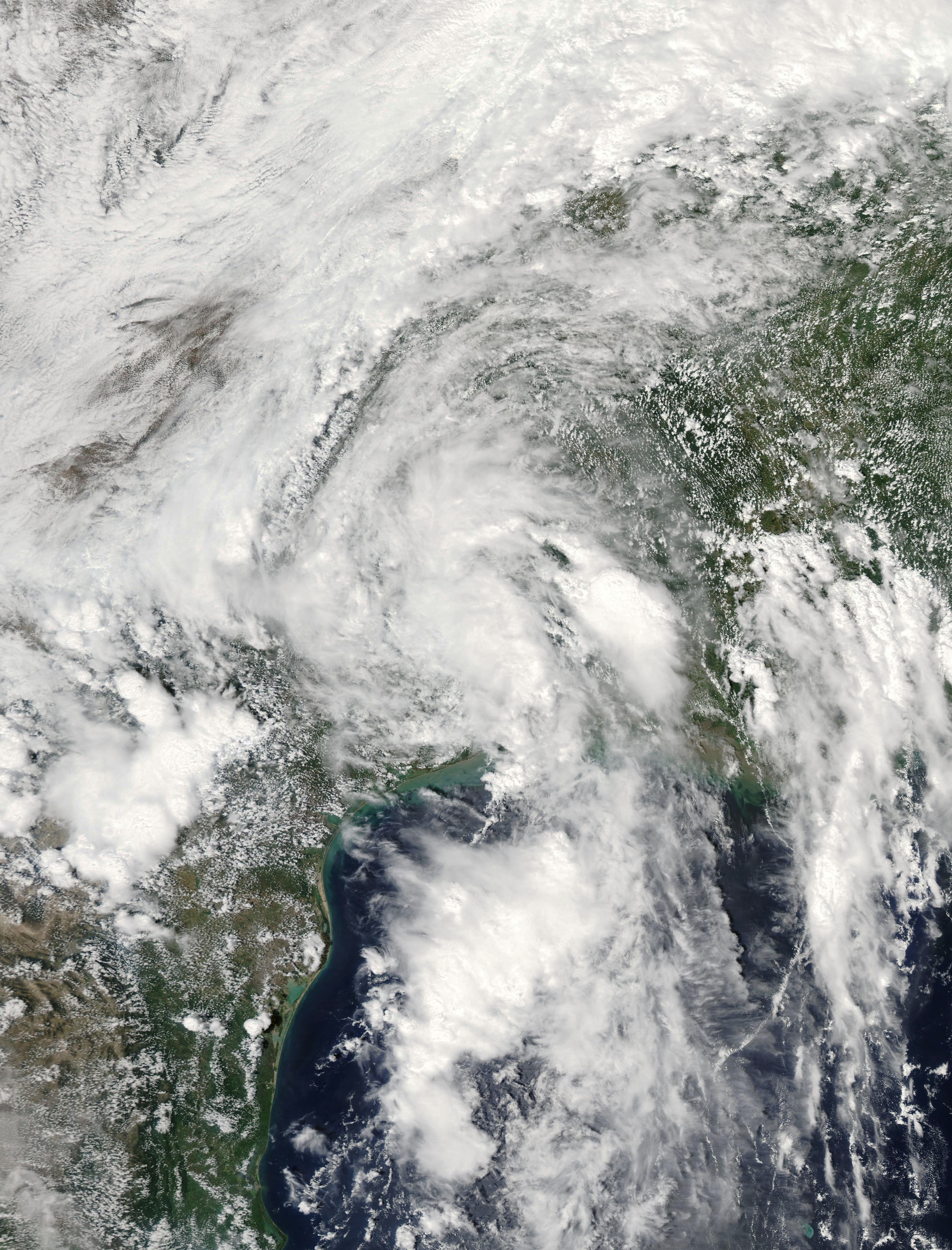 Tropical Storm Grace weakening over Texas on August 31, 2003